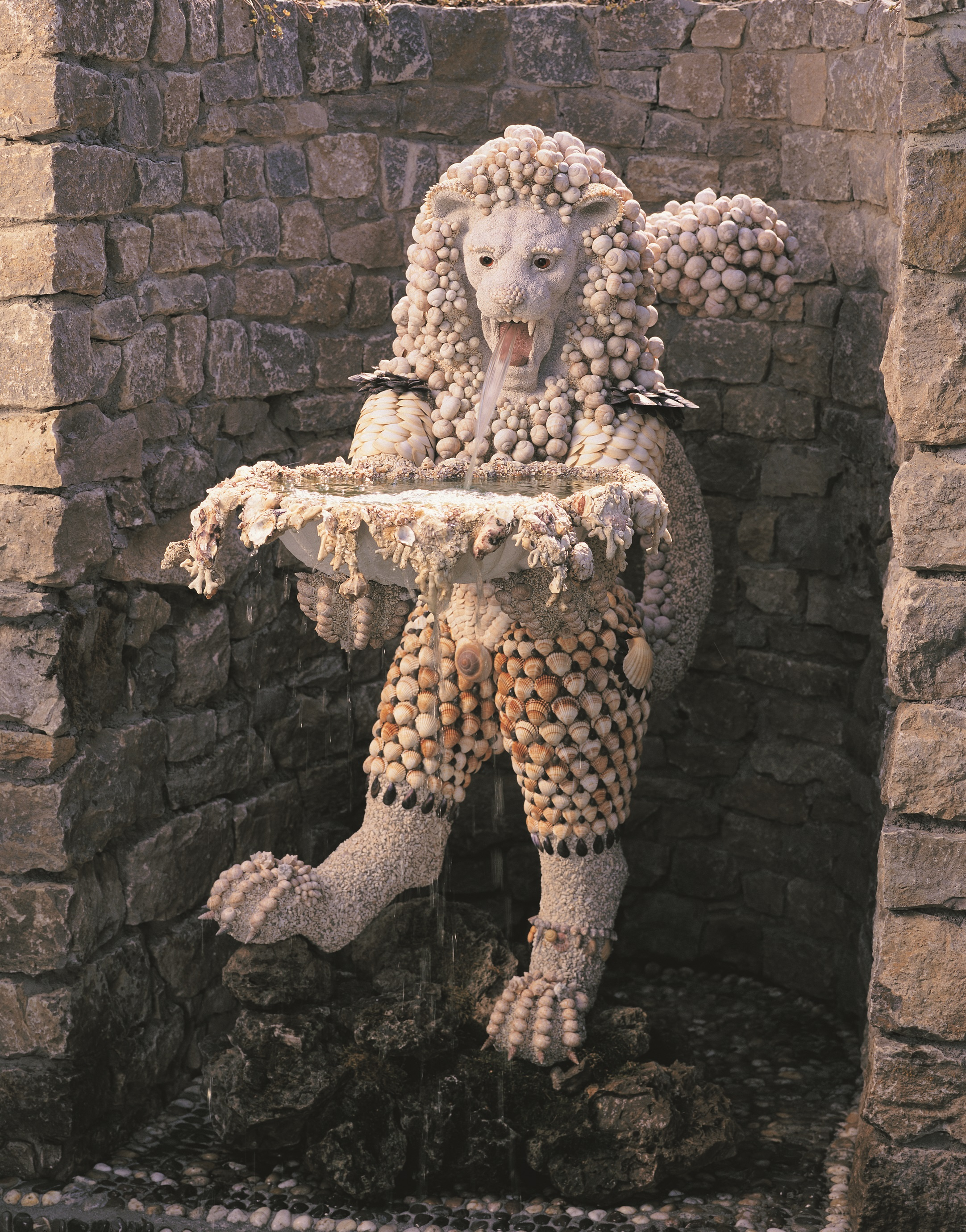 „Fabelhafte Wesen“ von Barbara Lenz „Brunnenfigur - Großer Muschellöwe“, 2003, Breite 80 cm / Höhe 147 cm